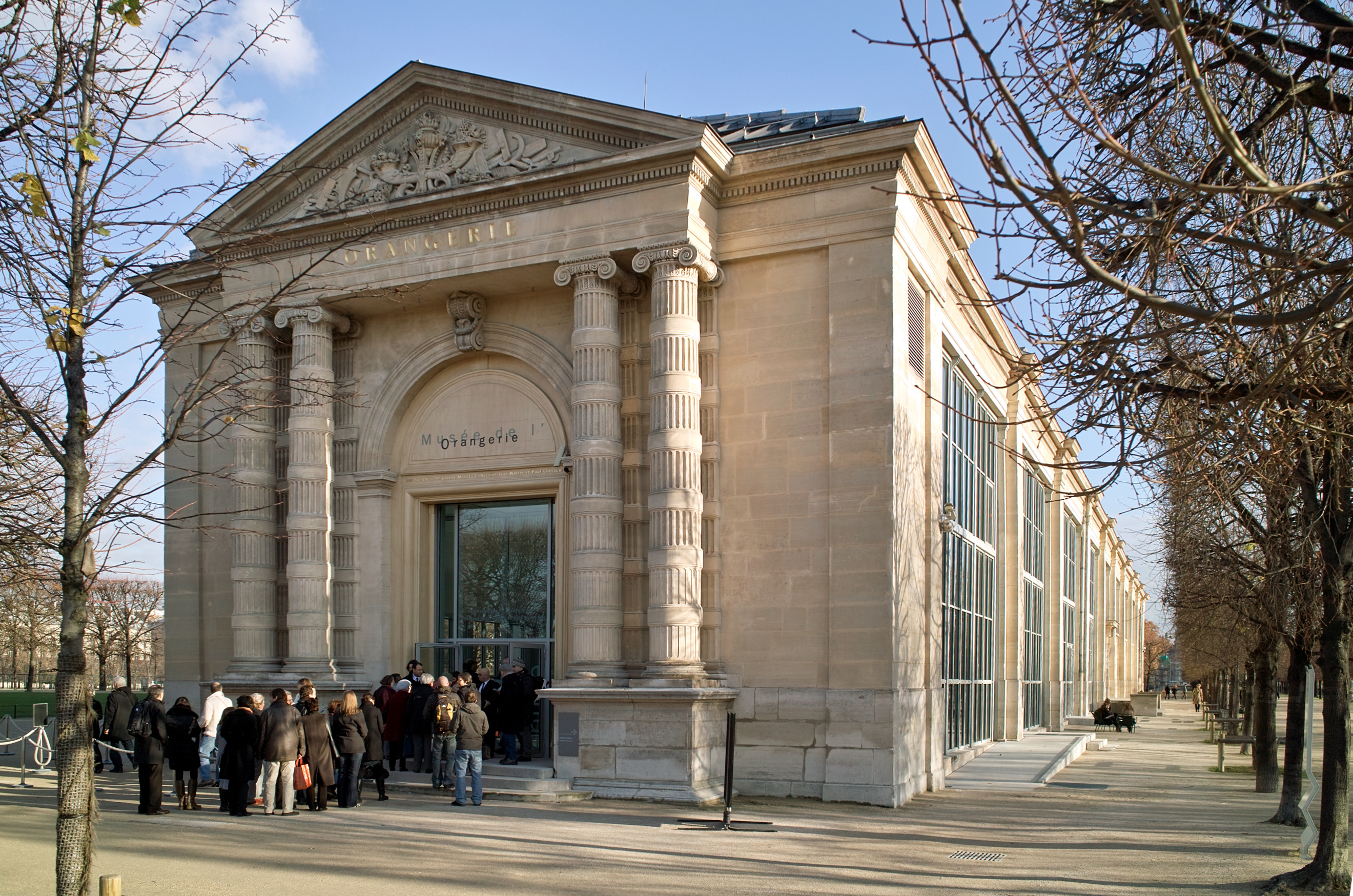 Musée de l'Orangerie, Paris, France